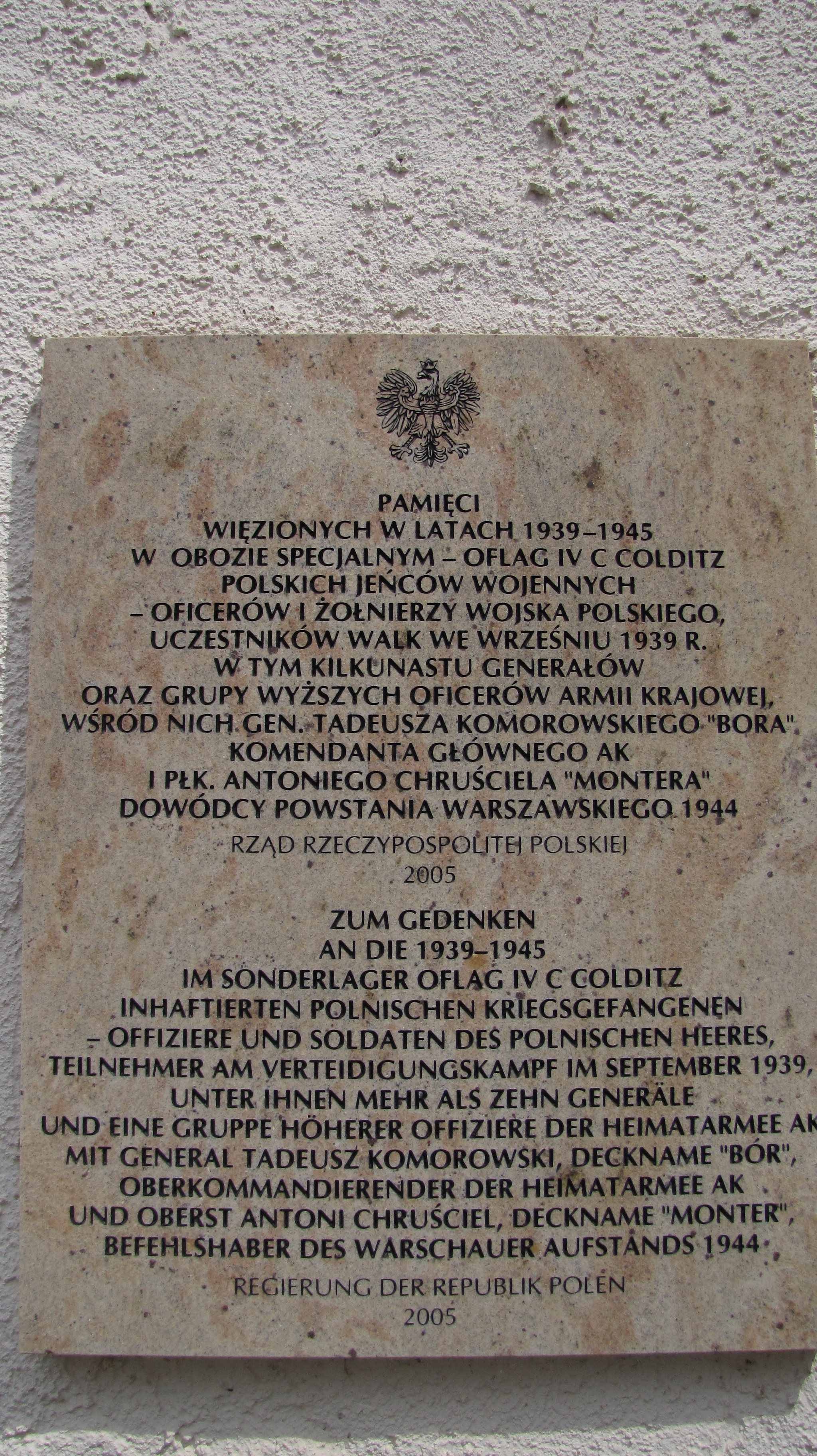 Memorial plaque in Castle Colditz commemorating Polish prisoners of war